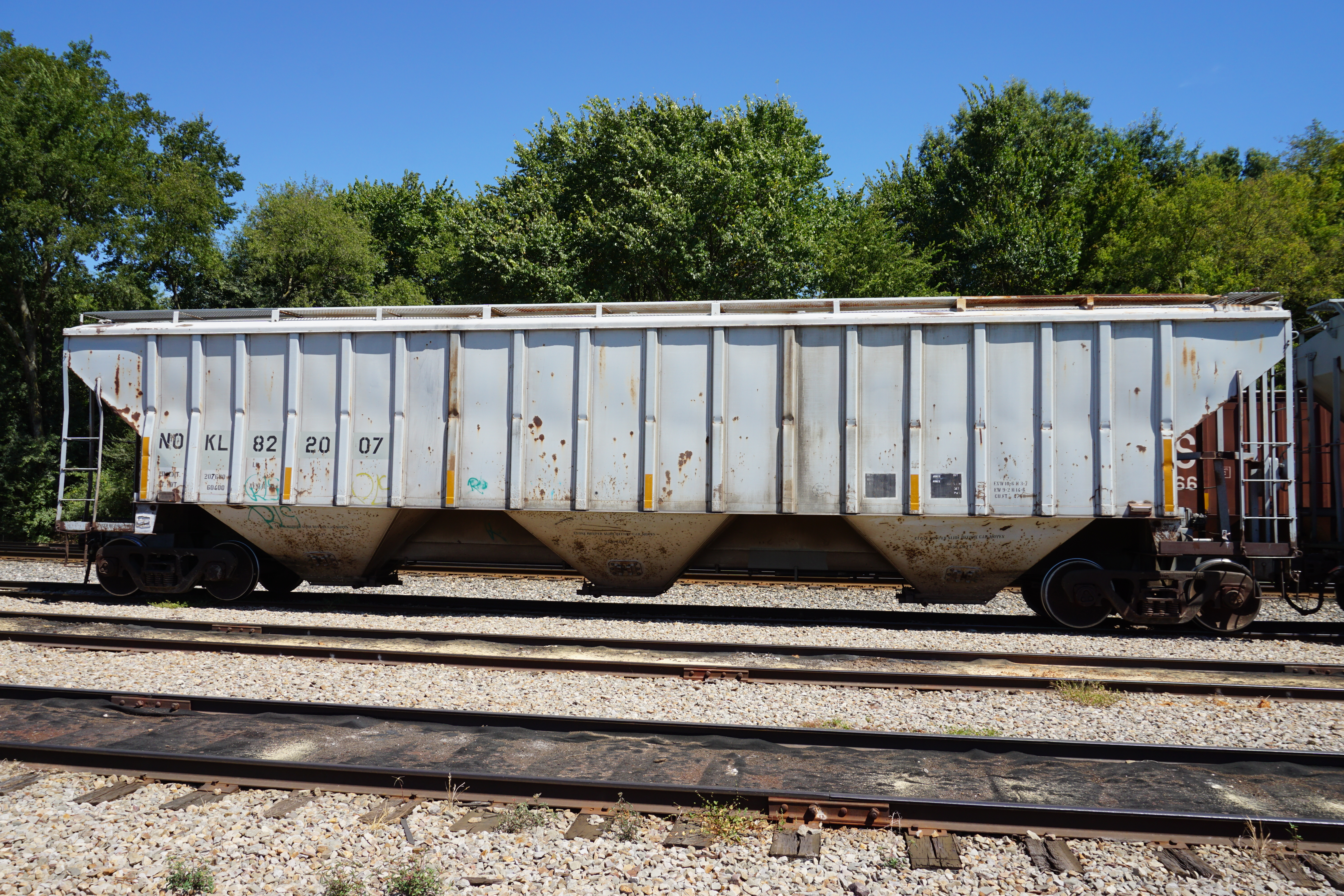 A hopper car at the Pilgrim's Pride feed mill in Pittsburg, Texas (United States).